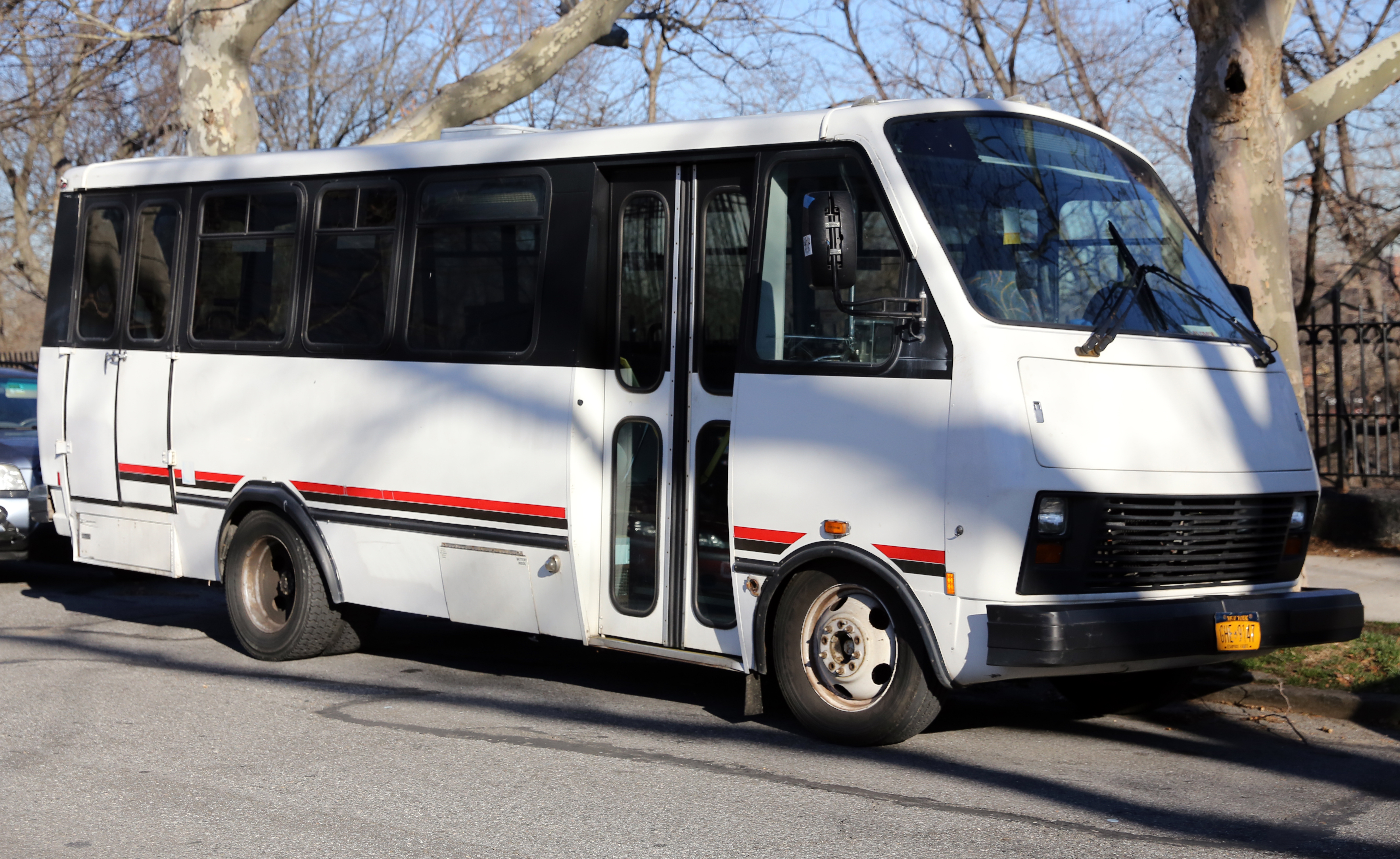 A 2002 Workhorse P32 chassis with an ElDorado Escort 21-passenger bus body, used as a church van in Harlem, NYC. Workhorse took over the Chevrolet/GMC P30/P32-series stepvan/motorhome chassis in 1998 and kept building it until 2005. It was offered with GM engines and proprietary bodywork; they were built in Union City, Indiana. This one has a GM L65 6.5 litre turbodiesel with 190hp and a four-speed GM Hydra-Matic 4L80-E transmission. It is technically speaking a Class 4 Motorhome chassis.